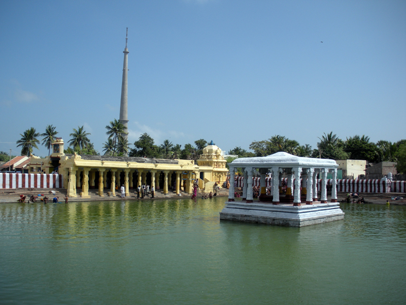 Lakshman Theertham, Rameshwaram